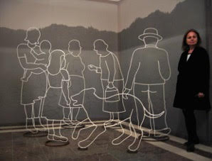 Jindra Viková, Wire figures, 2007, from the exhibition at the Belveder Pallace, Prague